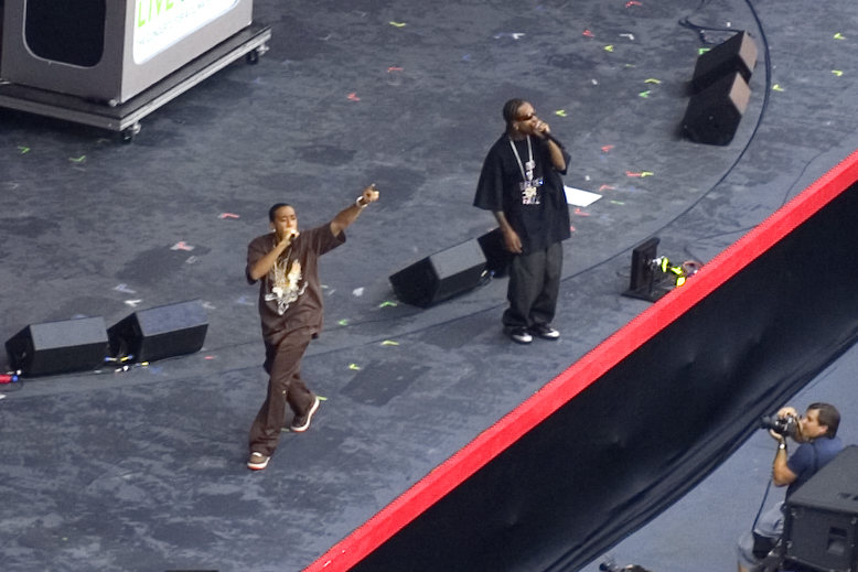 Ludacris performing at the Live Earth concert in New Jersey.